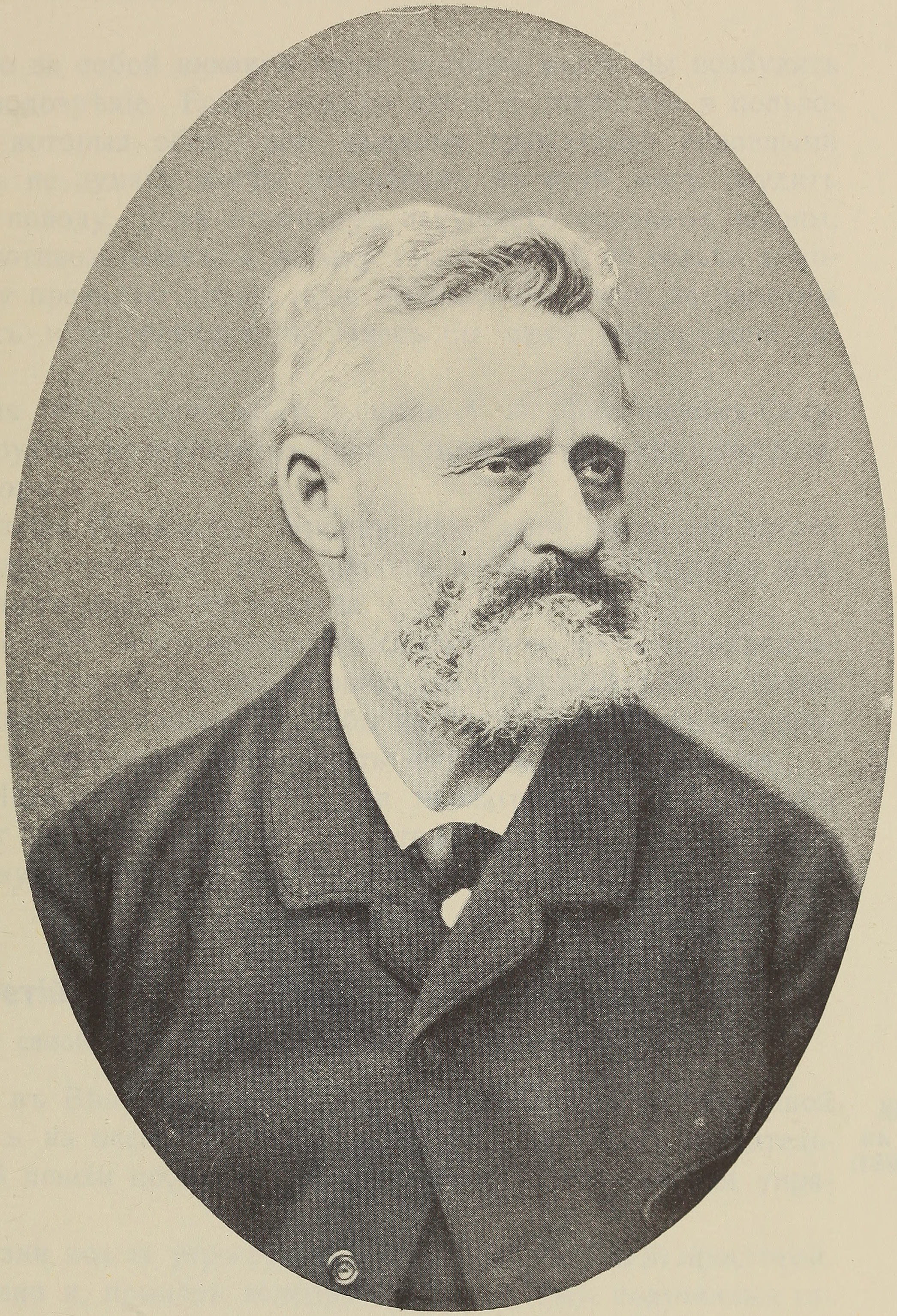 Adolf Dobryansky, Vienna, 1883.